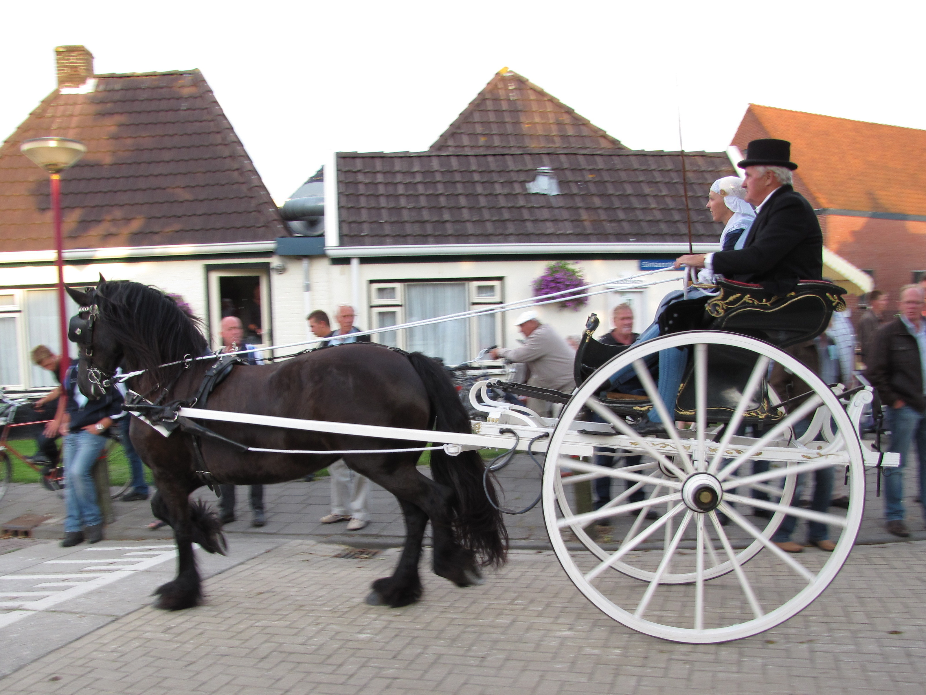 Ring riding in Ljoessens in Fryslân (the Netherlands) with an original Frisian chaise.